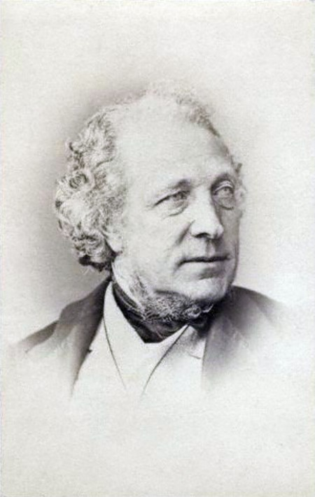 Albumen carte-de-visite of William Leighton Leitch, 3 5/8 in. x 2 3/8 in. (92 mm x 59 mm)